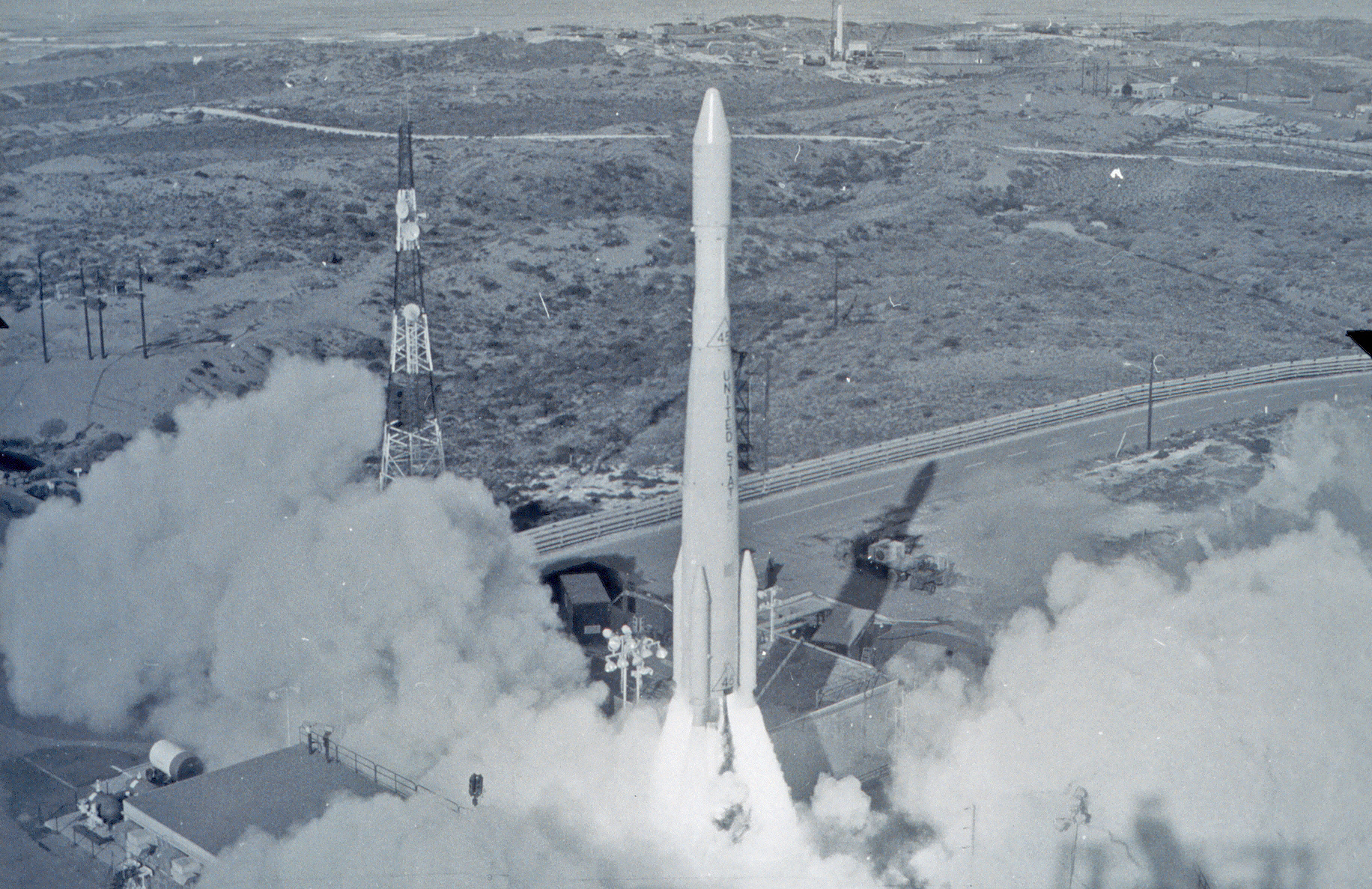 Launch of ESSA IV Spac0002-retouched